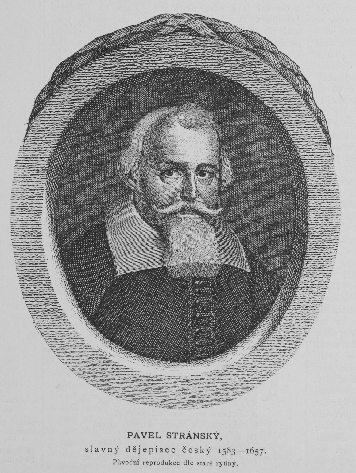 Portrait of Pavel Stránský (1583 - 1657), exiled Czech historian